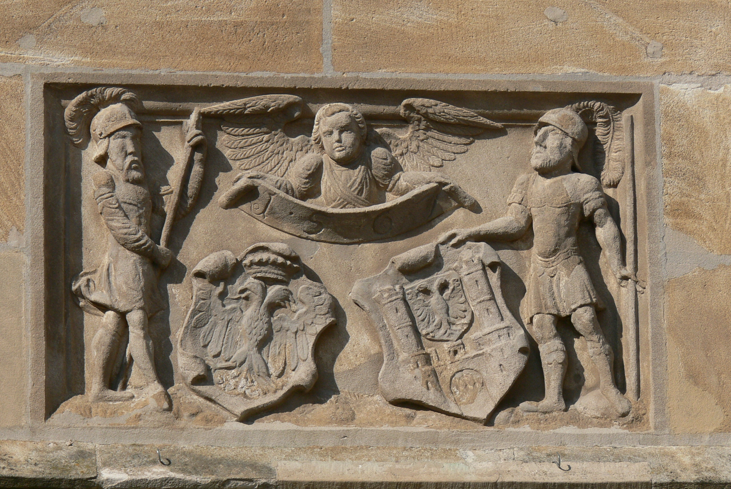 Weißenburg ( Bavaria ). Old town hall ( market square ): Relief with coats of arms of the city and the Holy Roman Empire.